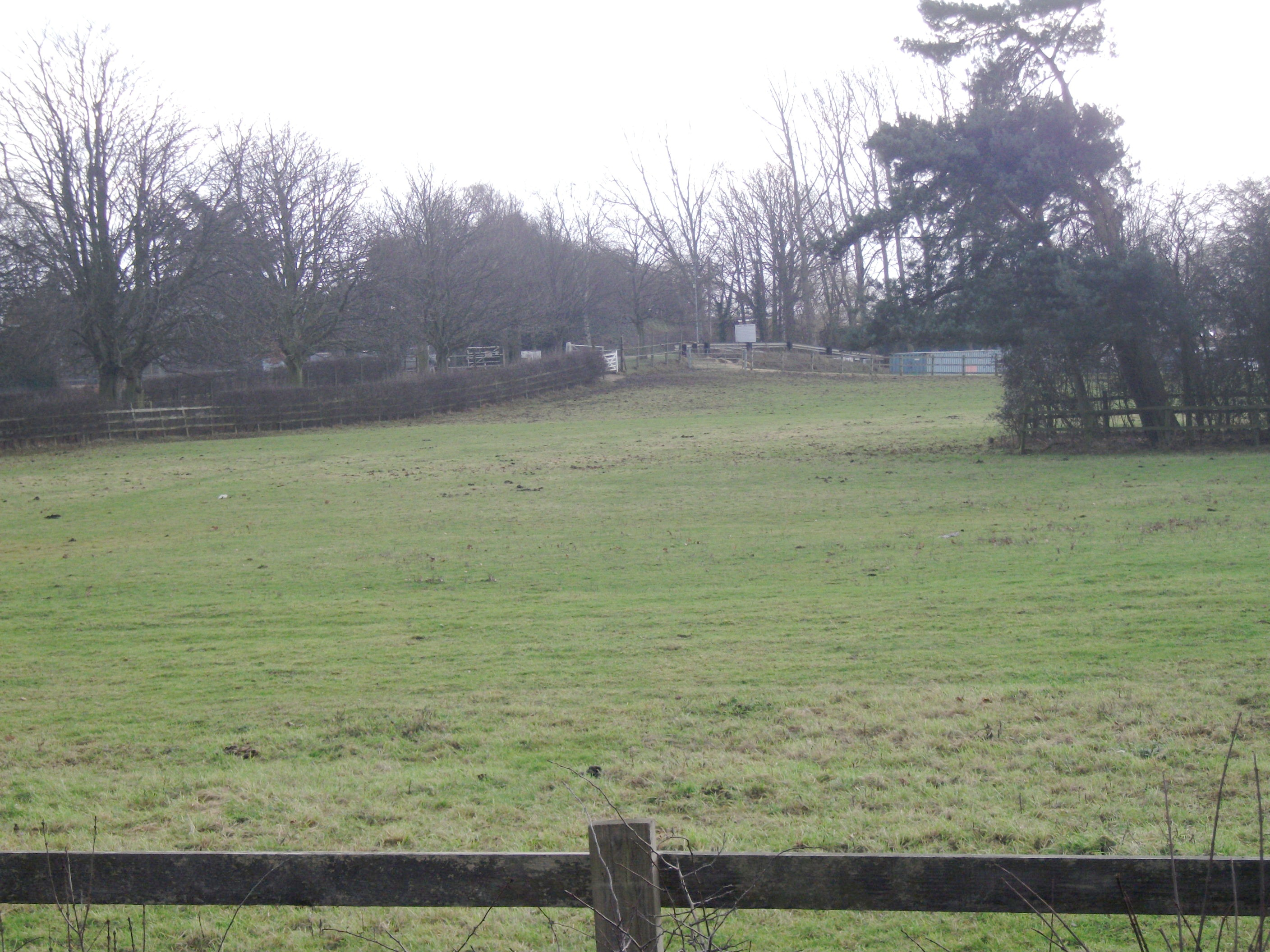 The earthwork known as "Risinghoe Castle" viewed from Goldington Road near the junction with Norse Road in Bedford.